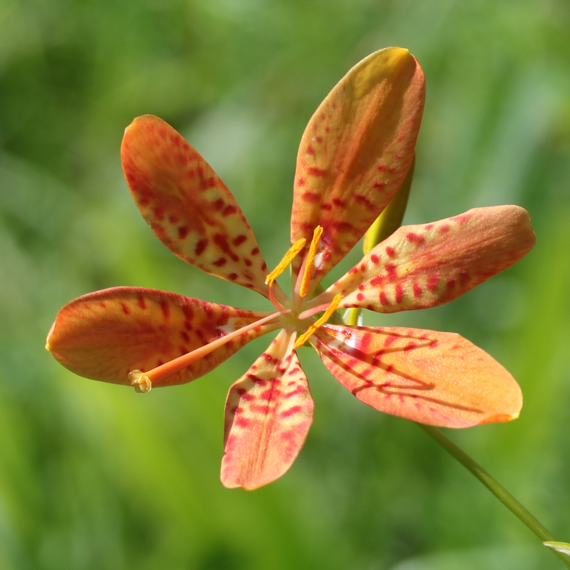 Iris domestica in Mount Ibuki, Maibara, Shiga Prefecture, Japan.